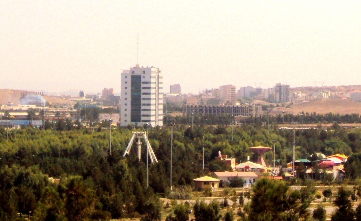 Qom, Iran